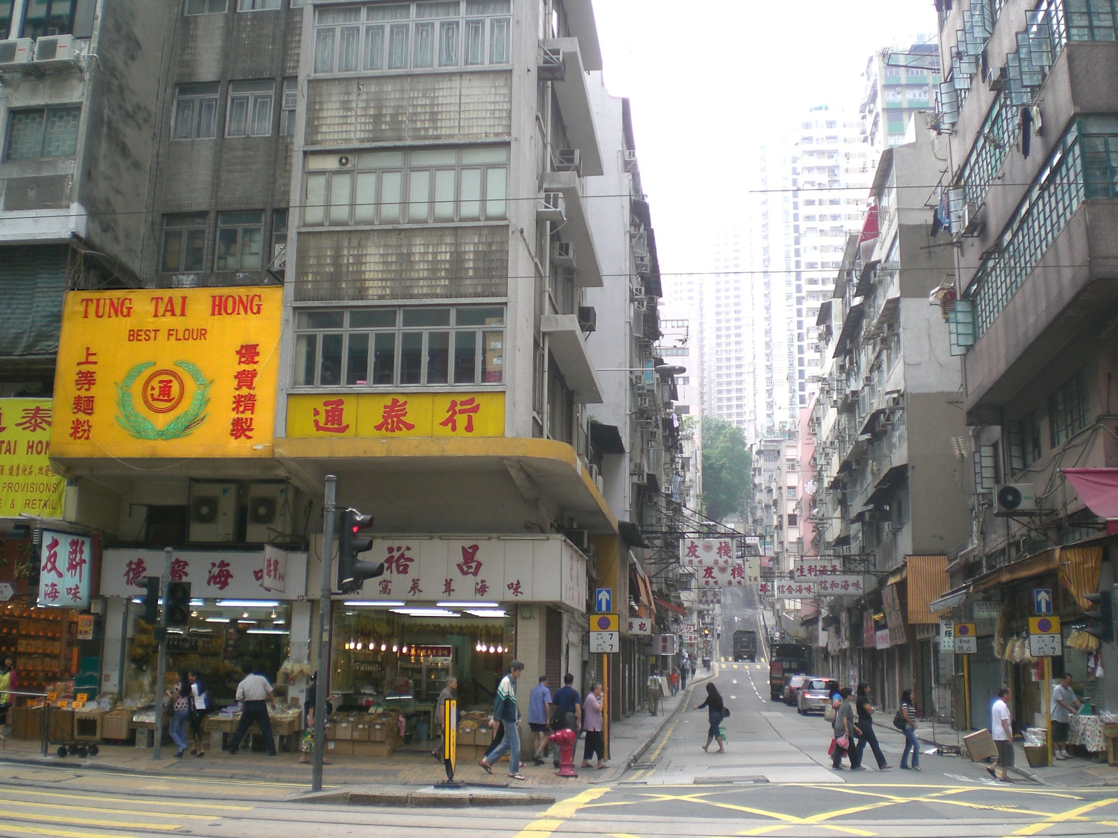 西環德輔道西鄰近街景 東邊街zh:通泰行